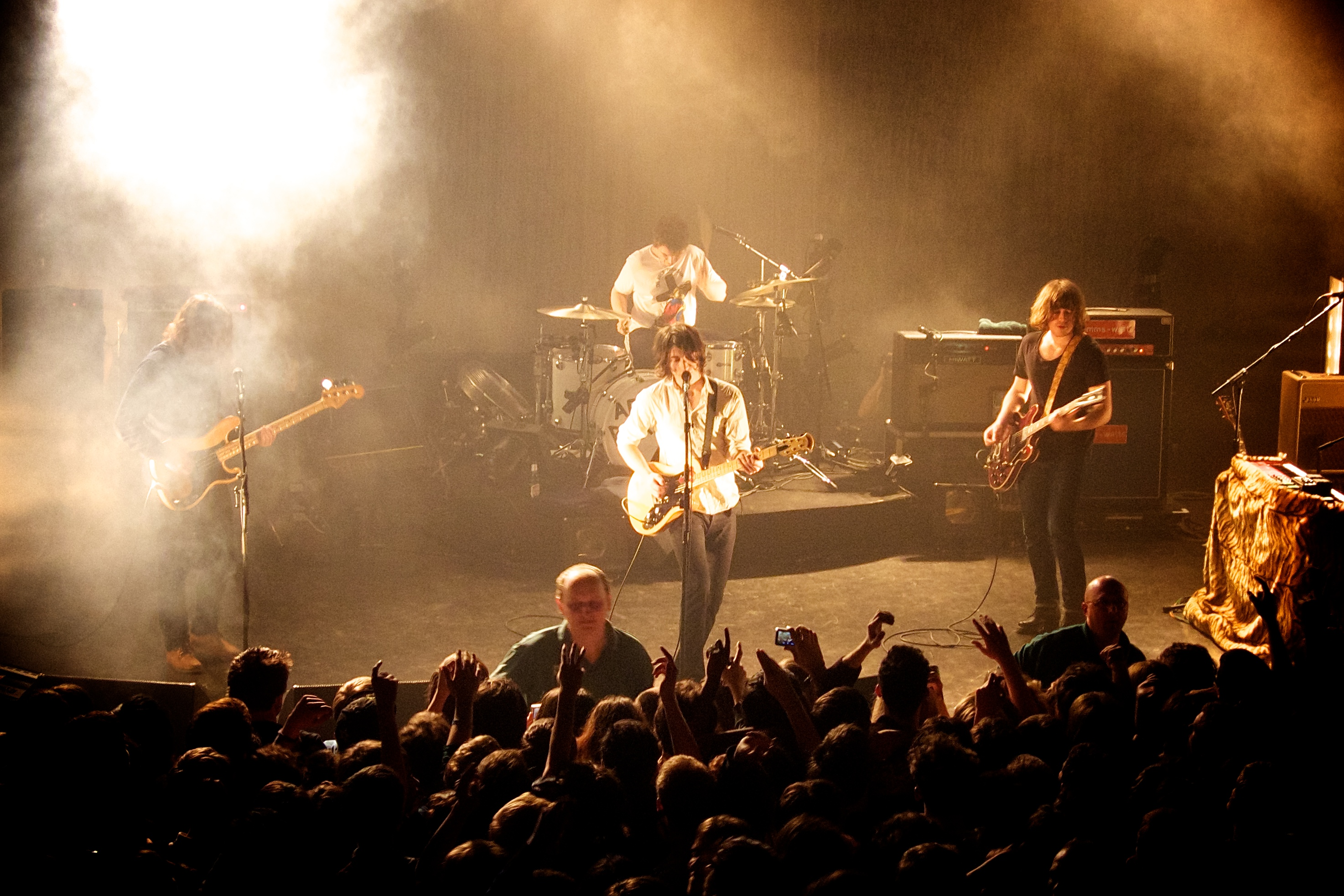 Arctic Monkeys on Shepherds Bush Empire